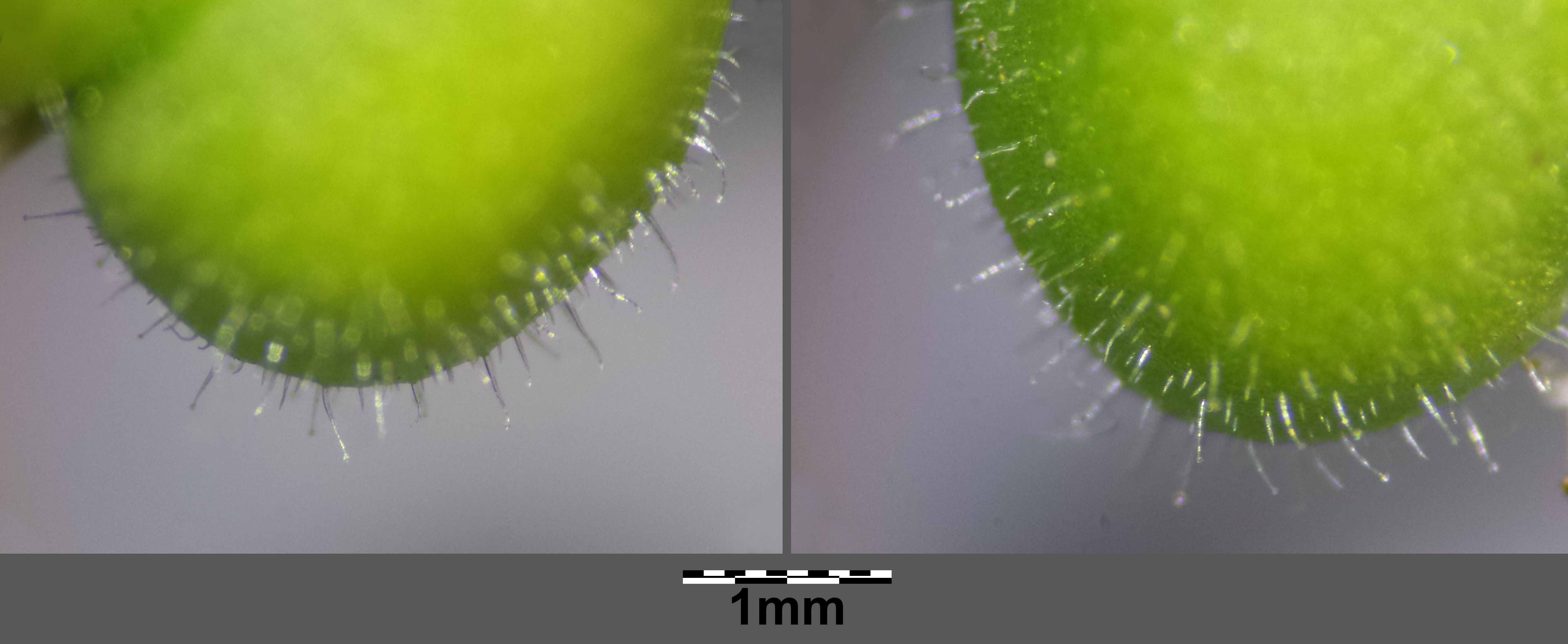 Border of a fruit with longer hairs with glands and short hairs without glands Taxonym: Veronica polita ss Fischer et al. EfÖLS 2008 ISBN 978-3-85474-187-9 Location: Pragerstraße/O'Brien-Gasse/Am Nordwestbahnhof, Vienna-Floridsdorf - ca. 160 m a.s.l. Habitat: abandoned allotment